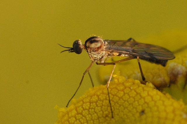 Sylvicola spec. from Commanster, Belgian High Ardennes.